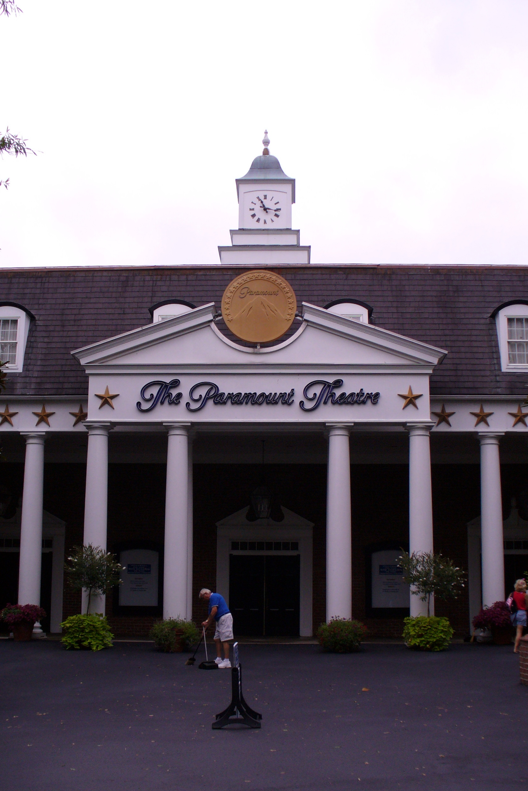 The Paramount Theater (during the Paramount years at Kings Dominion)